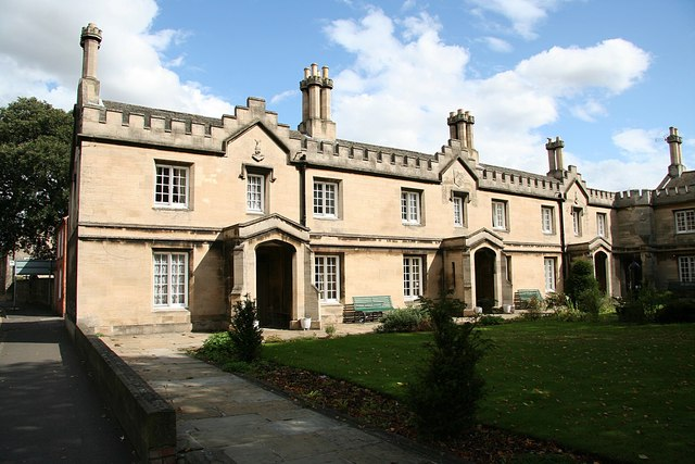 East range of Carre's Hospital almshouses, Eastgate, Sleaford, Lincolnshire, seen from the west. Designed by HE Kendall and built in 1830 for Charles Kirk.